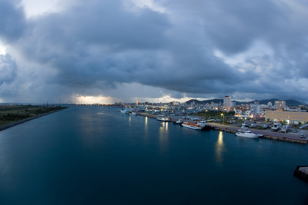 Ishigaki bay seen from southern gate bridge, Ishigaki island, Japan.2007/10/01.